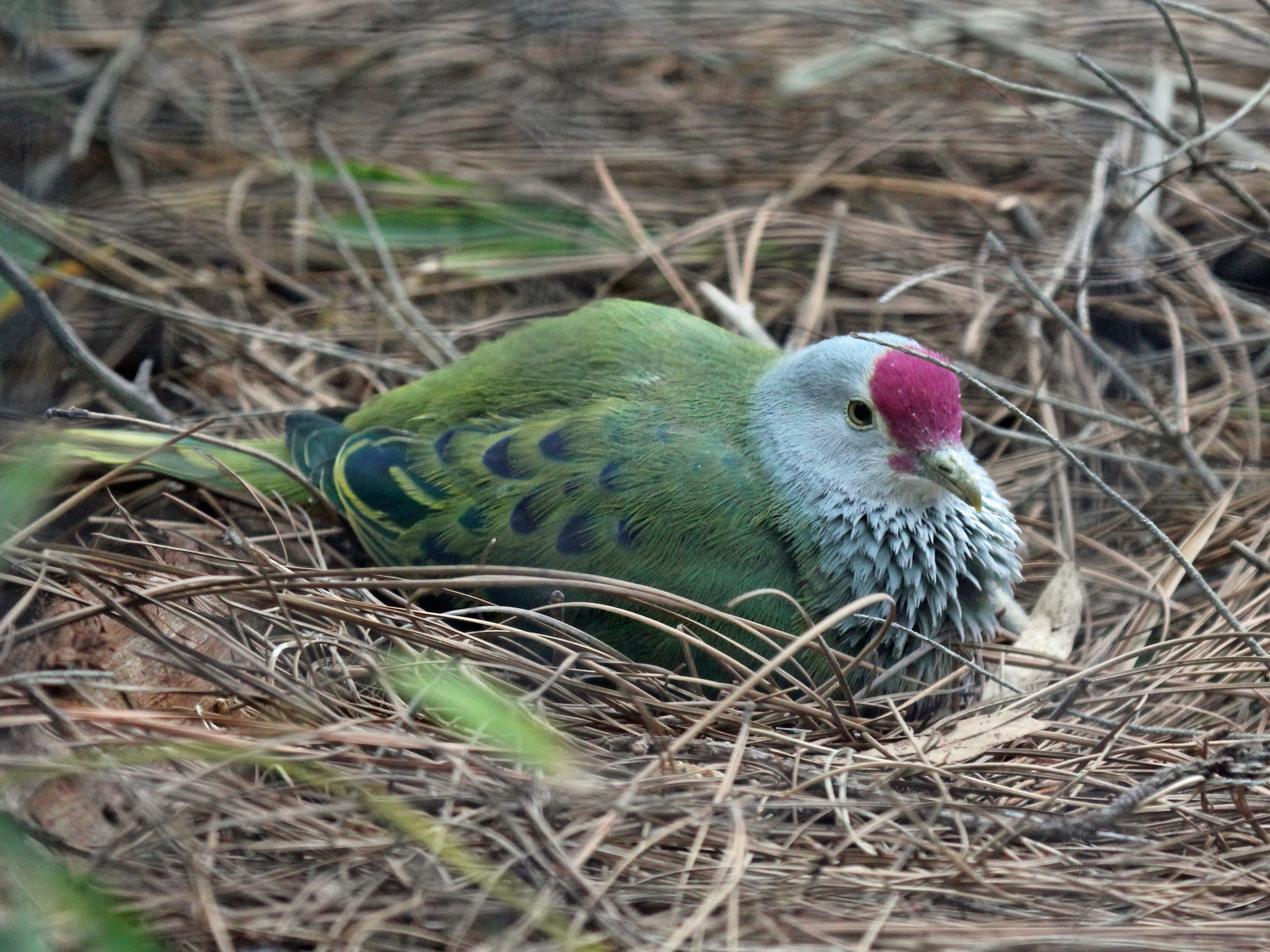 Mariana Fruit Dove (Ptilinopus roseicapilla) - San Diego Zoo